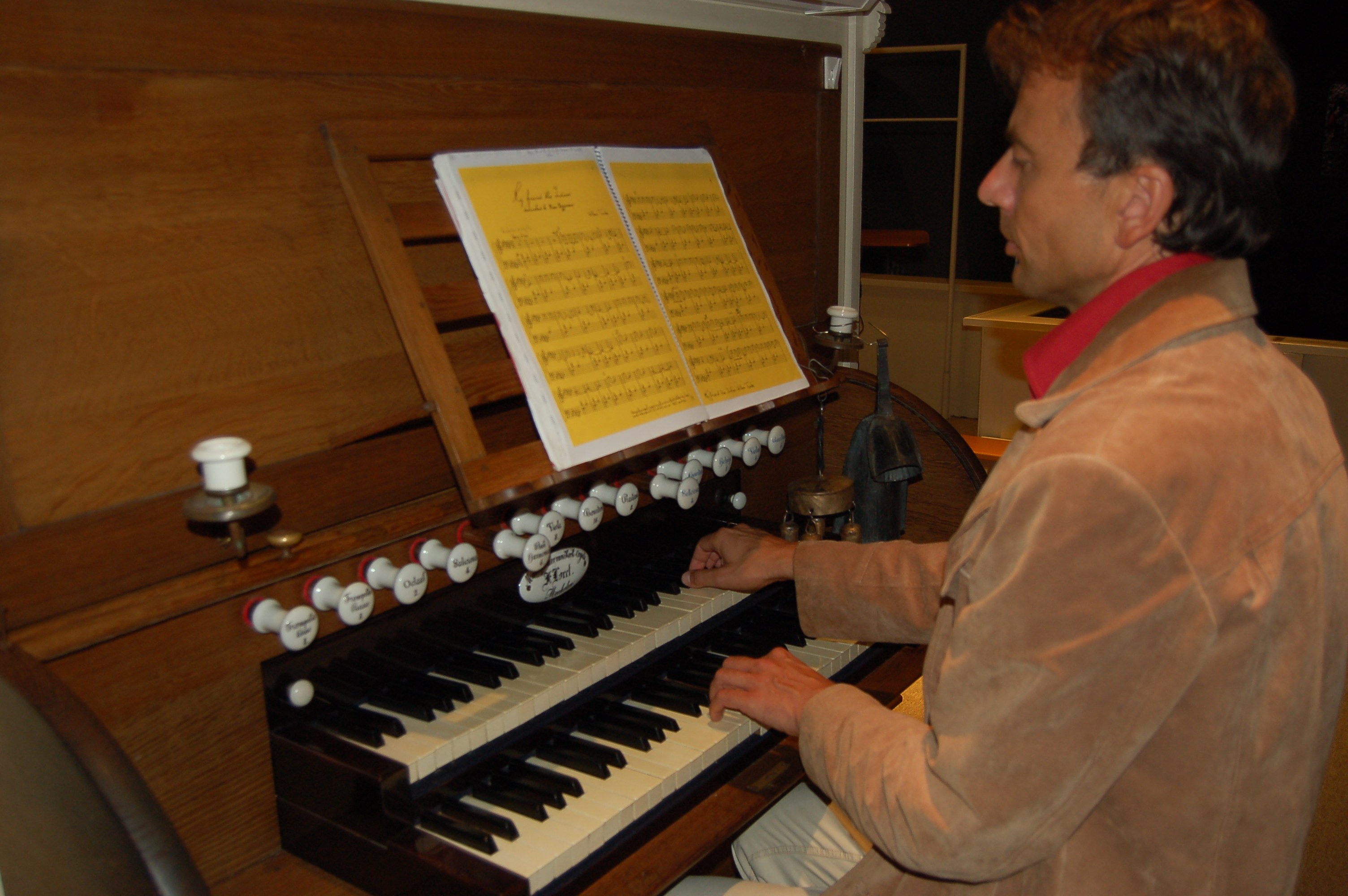 Photo made during recordings of „Meditations for a Lent” in 2006.